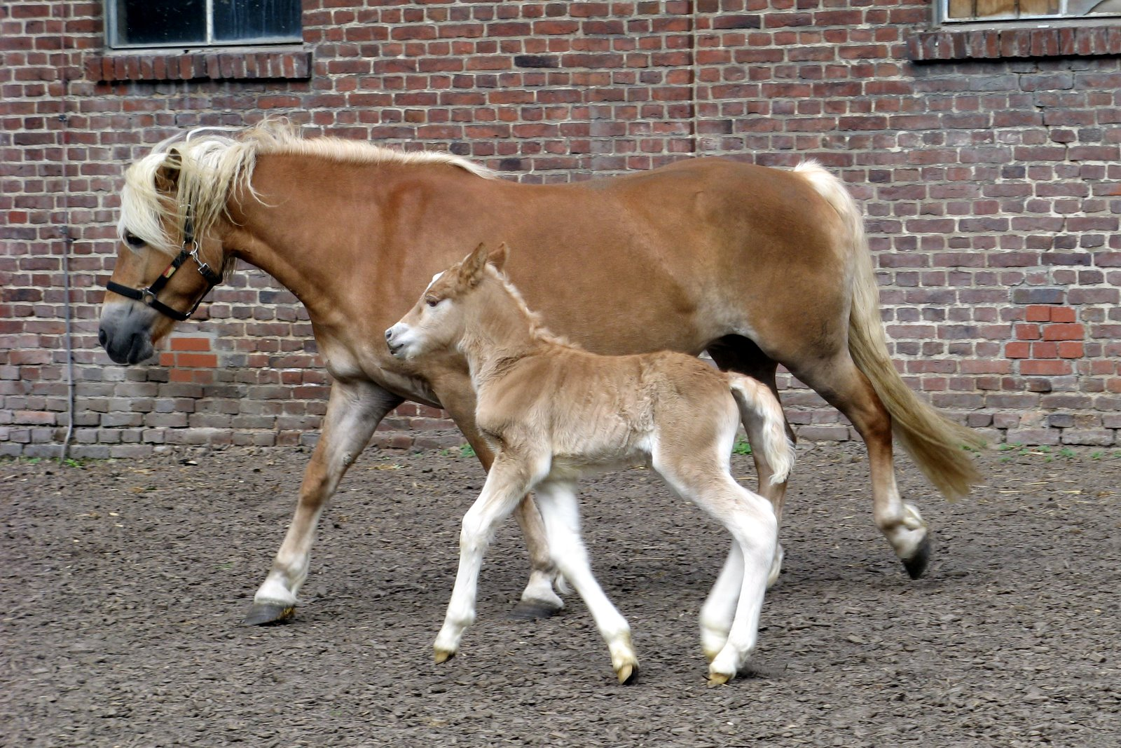 Haflinger mare Mona with her foal Auguste living at "Haflinger Westfalenfleiß Kinderhaus"